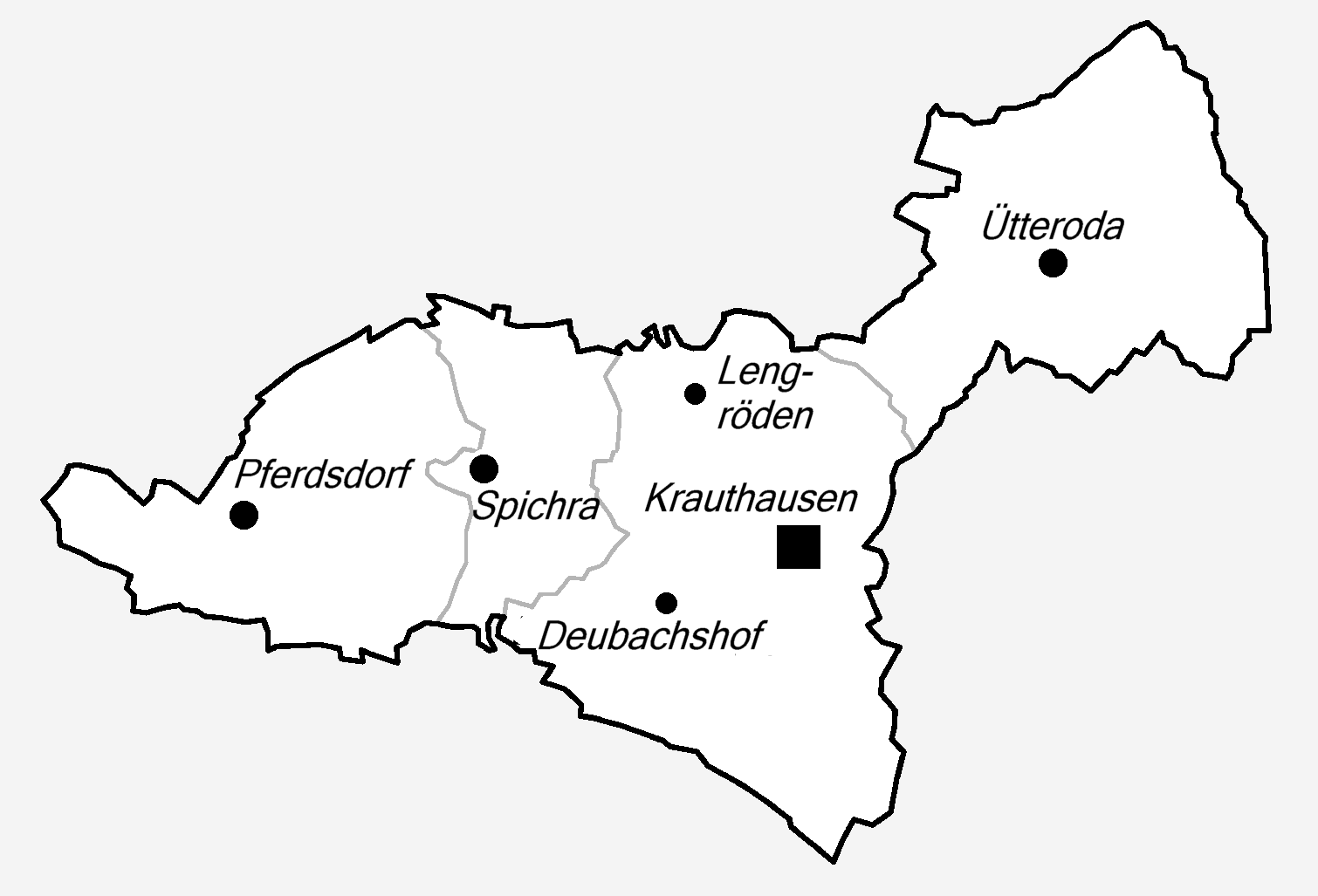 District-Map of Krauthausen in Thuringia.